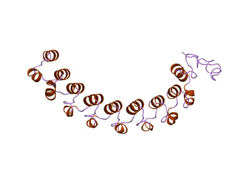 Cartoon representation of the molecular structure of protein registered with 1lrv code.